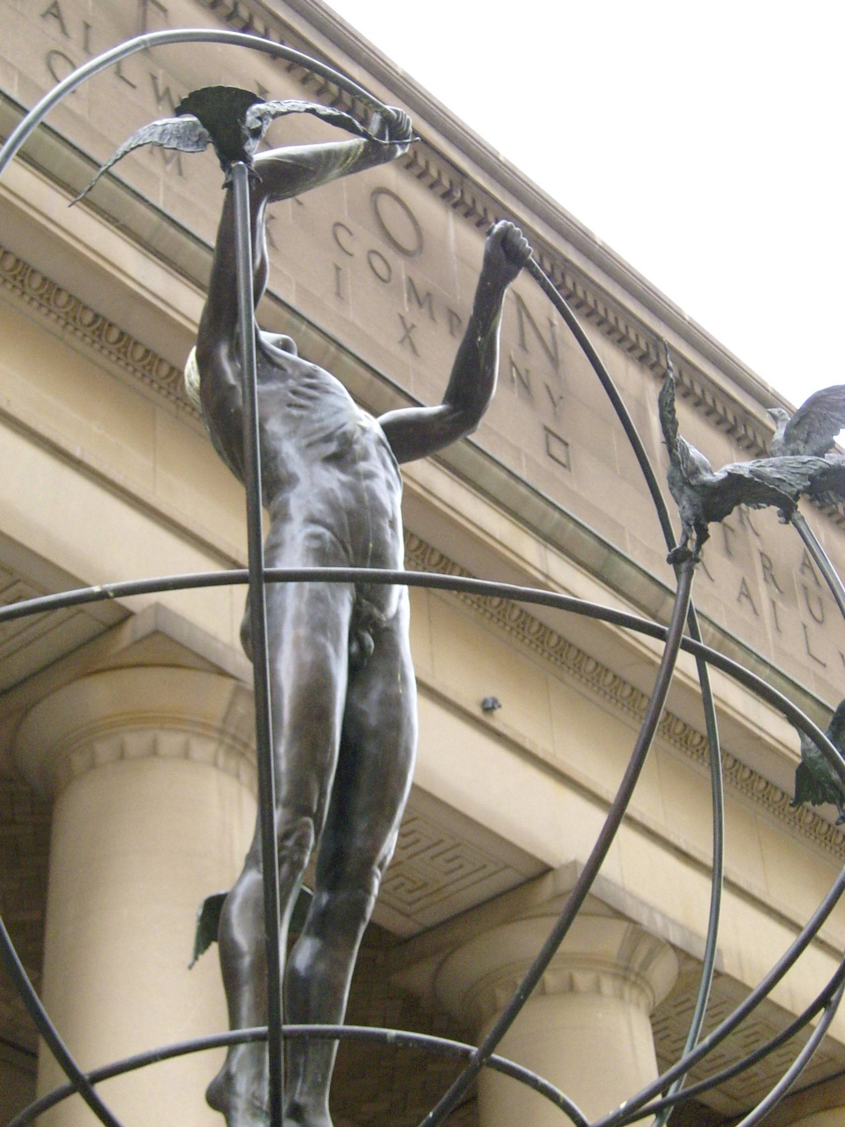 Statue titled, Monument to Multiculturalism by Francesco Pirelli at Union Station donated by the Italian community of Toronto in 1985.